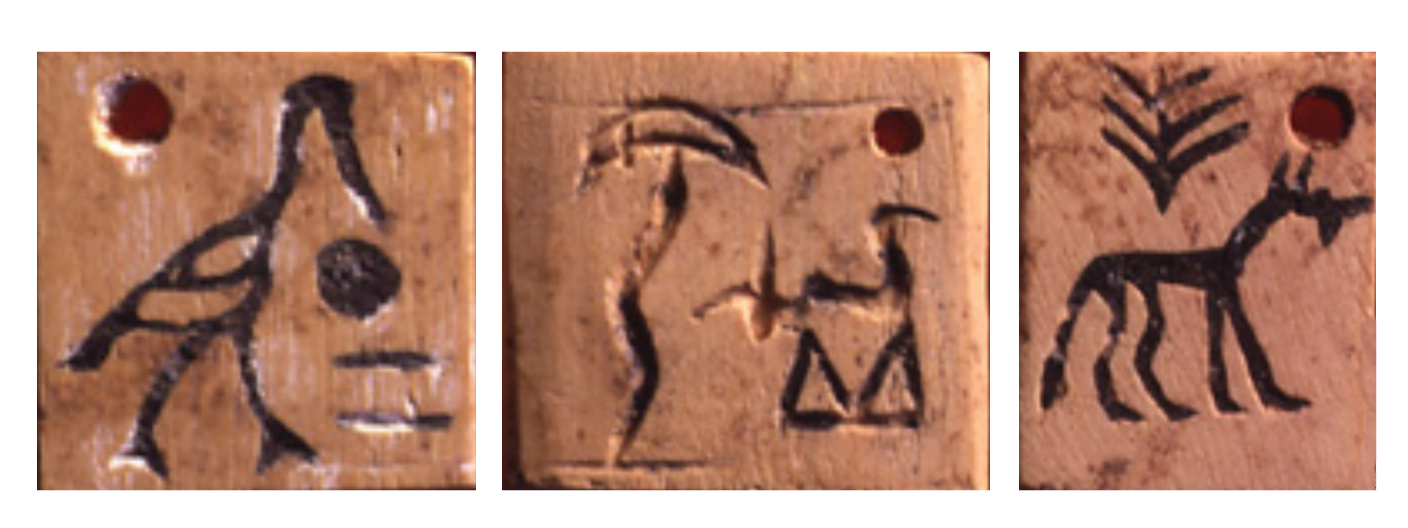 Design of the Abydos token glyphs dated to 3400-3200 BCE